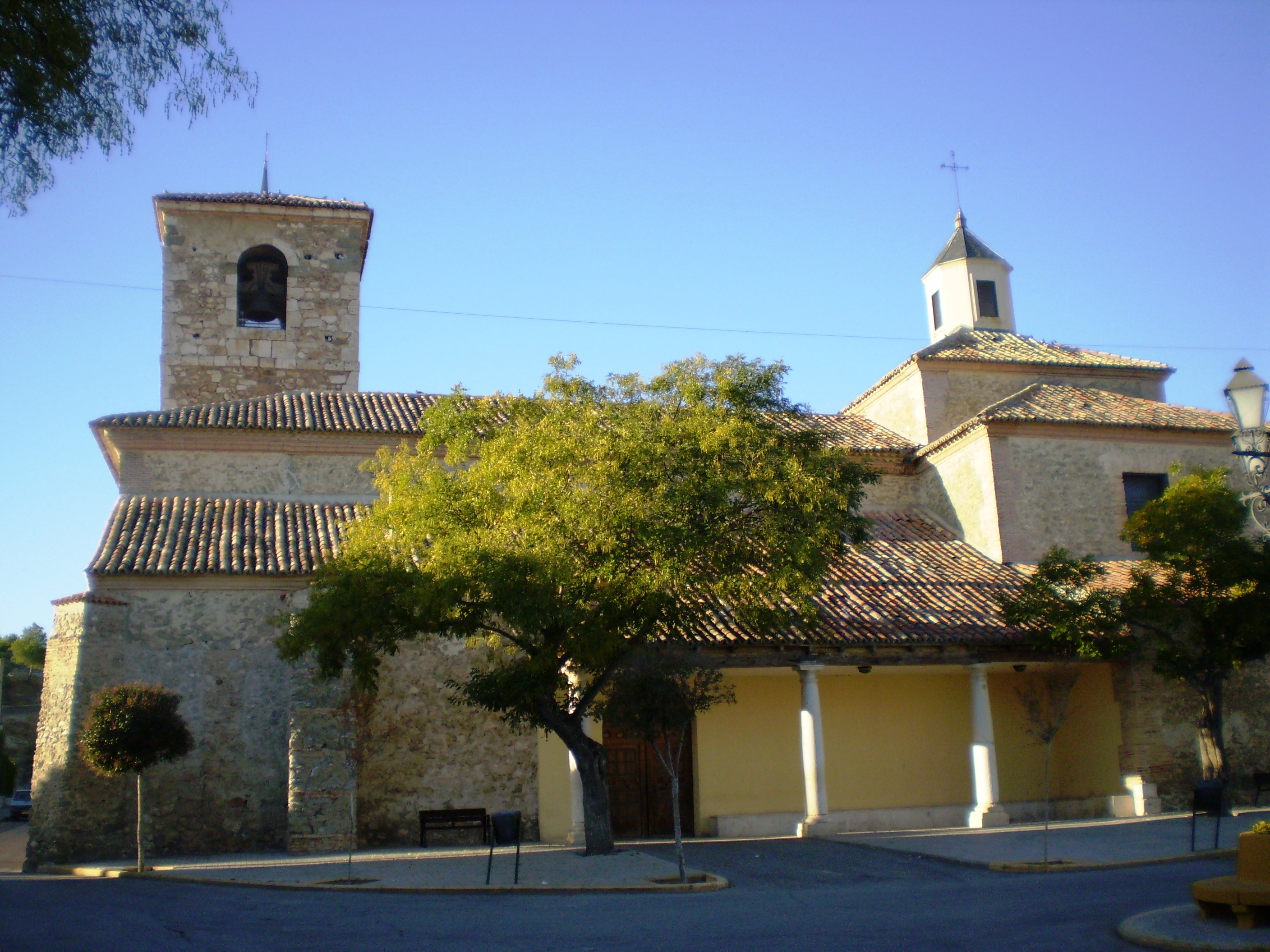 Church of Fuentidueña de Tajo, Community of Madrid, Spain